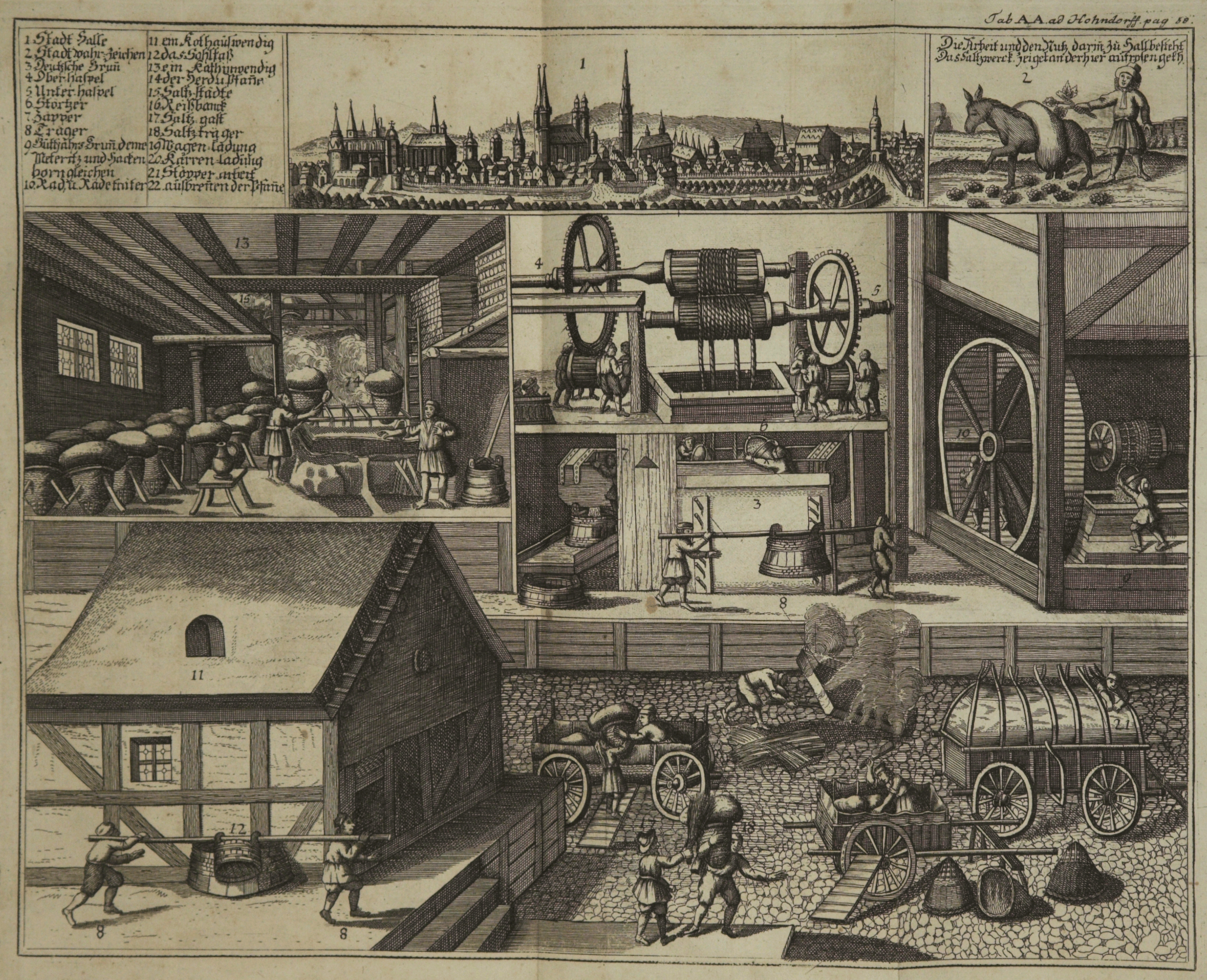 saline in Halle, Saxony-Anhalt, Germany